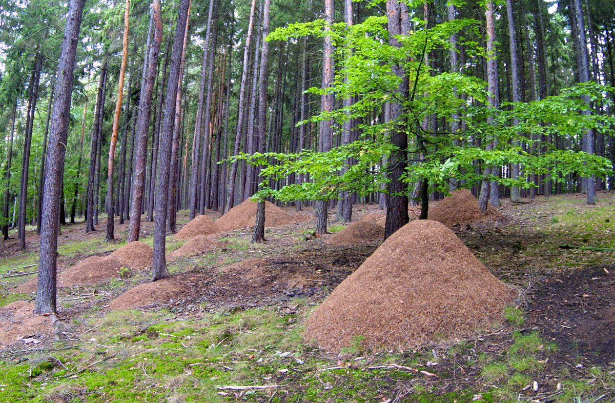 Ant hills of Formica rufa in Hlinický forrest.